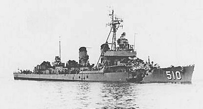 The U.S. Navy destroyer USS Eaton (DDE-510) following collision with the battleship USS Wisconsin (BB-64). On 6 May 1956, off the Virginia Capes, Wisconsin collided with the Eaton in thick fog while steaming at high speed (20 knots). The collision caused serious damage to both ships, with the Eaton contacting the battleship's bow on the starboard side forward of the bridge, which crushed to port side and broke the keel.